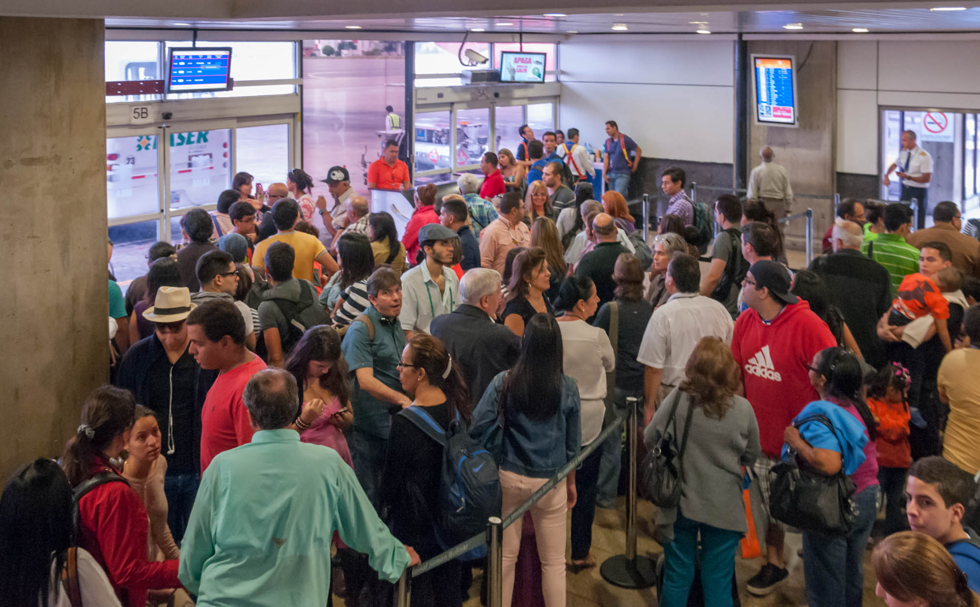 People line in Maiquetía (Simón Bolívar) Airport.